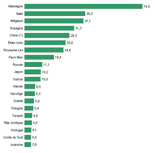 20 first partners of France in 2007